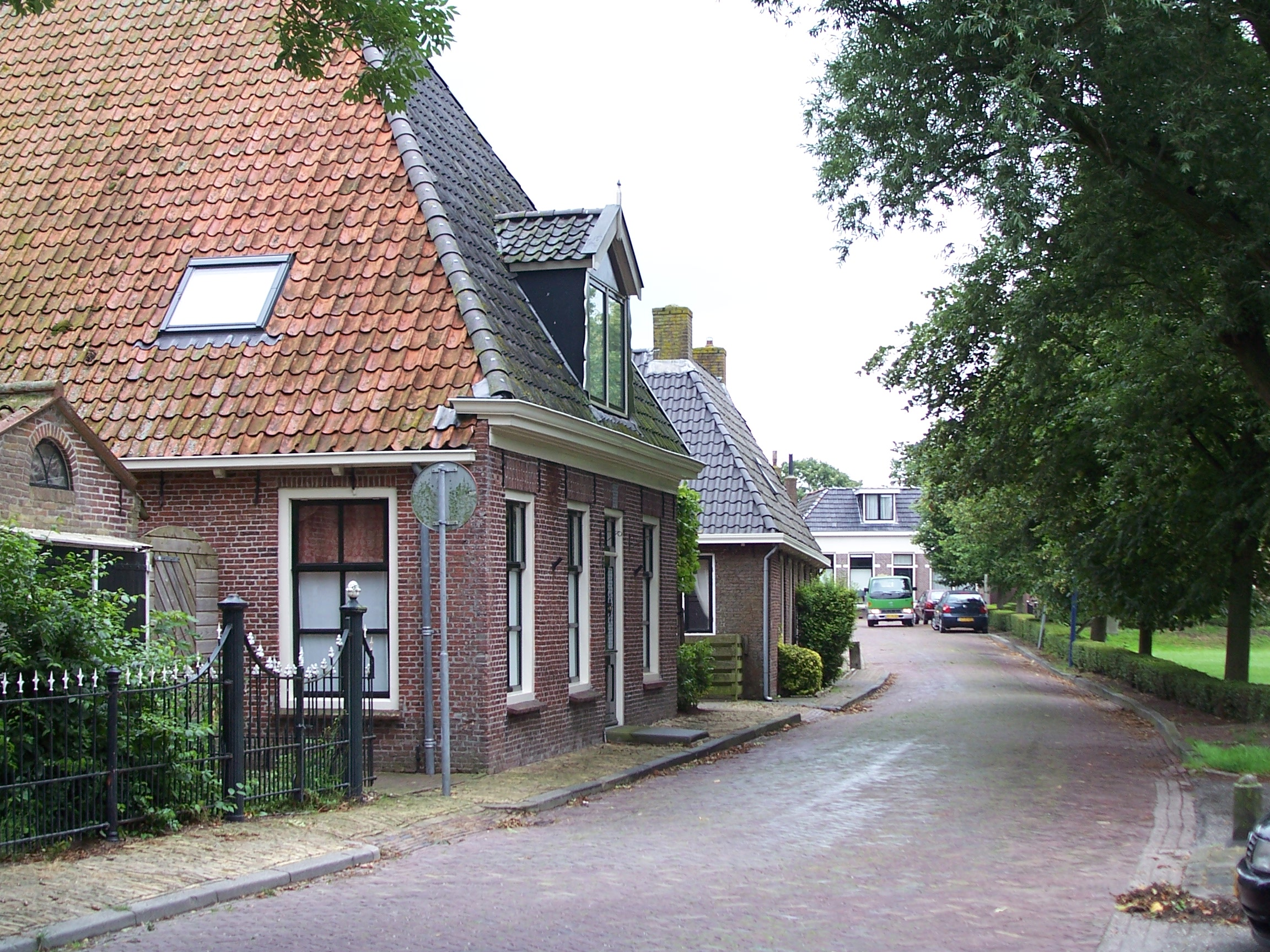 Wieuwerd, a village in the Netherlands.